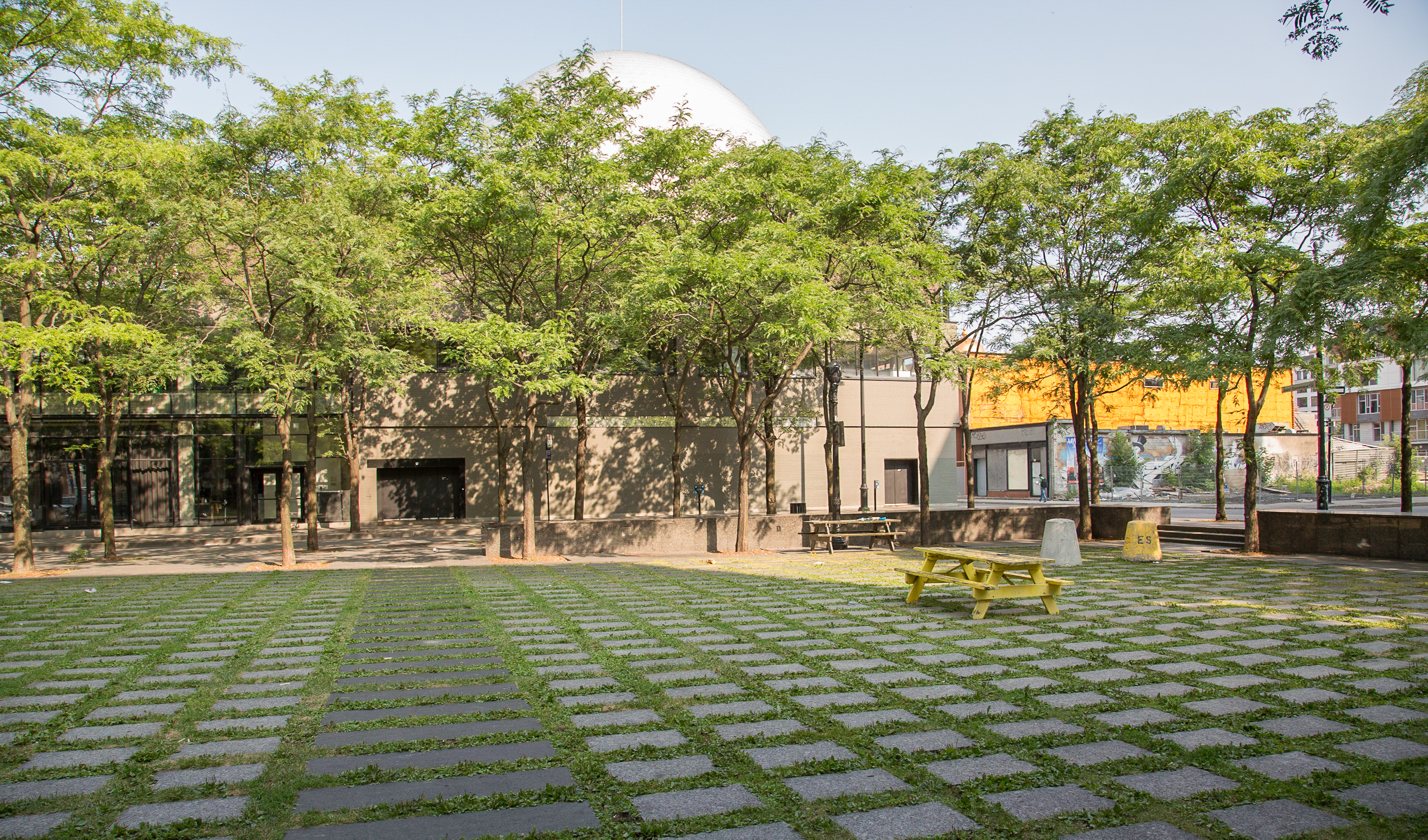 Peace Park on Saint-Laurent Boulevard in Montreal, Quebec, Canada.